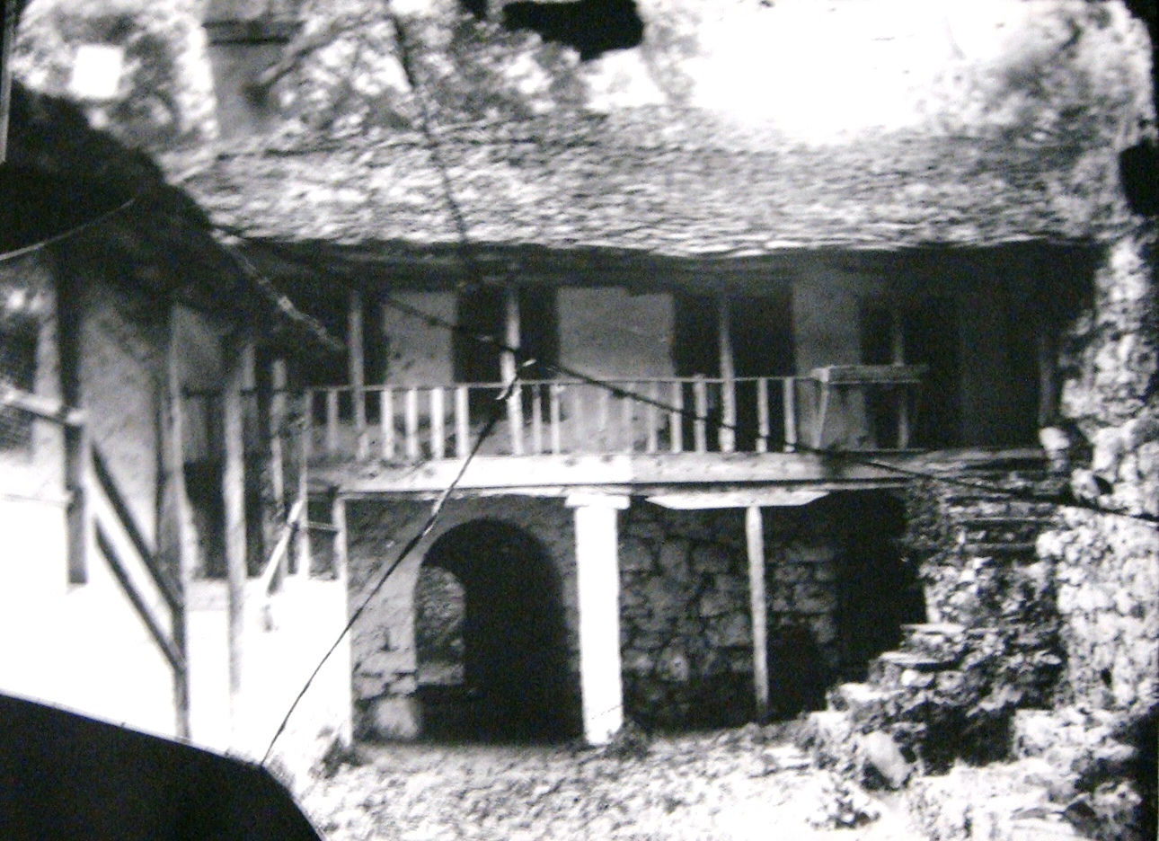 Building on the island in Ioanina Lake, where was killed Ali Pasha of Ioannina. (Janina, 1898) This media file is produced by Wikipedian in Residence in Category:Wikipedian in Residence at DARM in 2016.